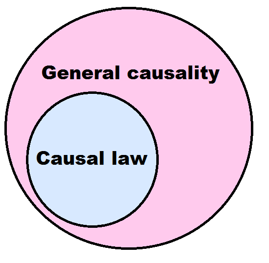 Causality according to Mainländer's epistemology